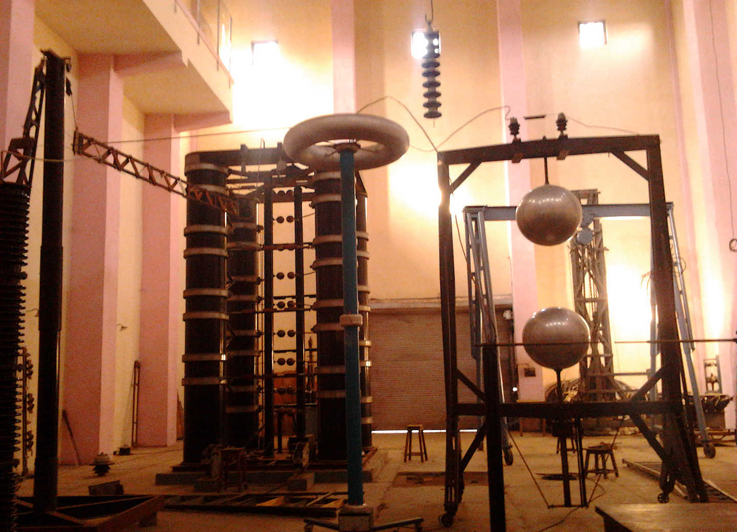 Jabalpur Engineering College High Voltage Laboratory. It contains a large Marx generator (rectangular standing structure, left) for creating high voltage pulses